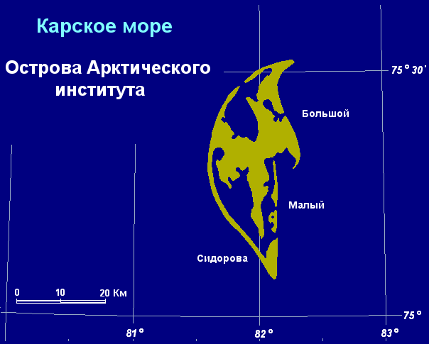 Arkticheskiy Institut Islands